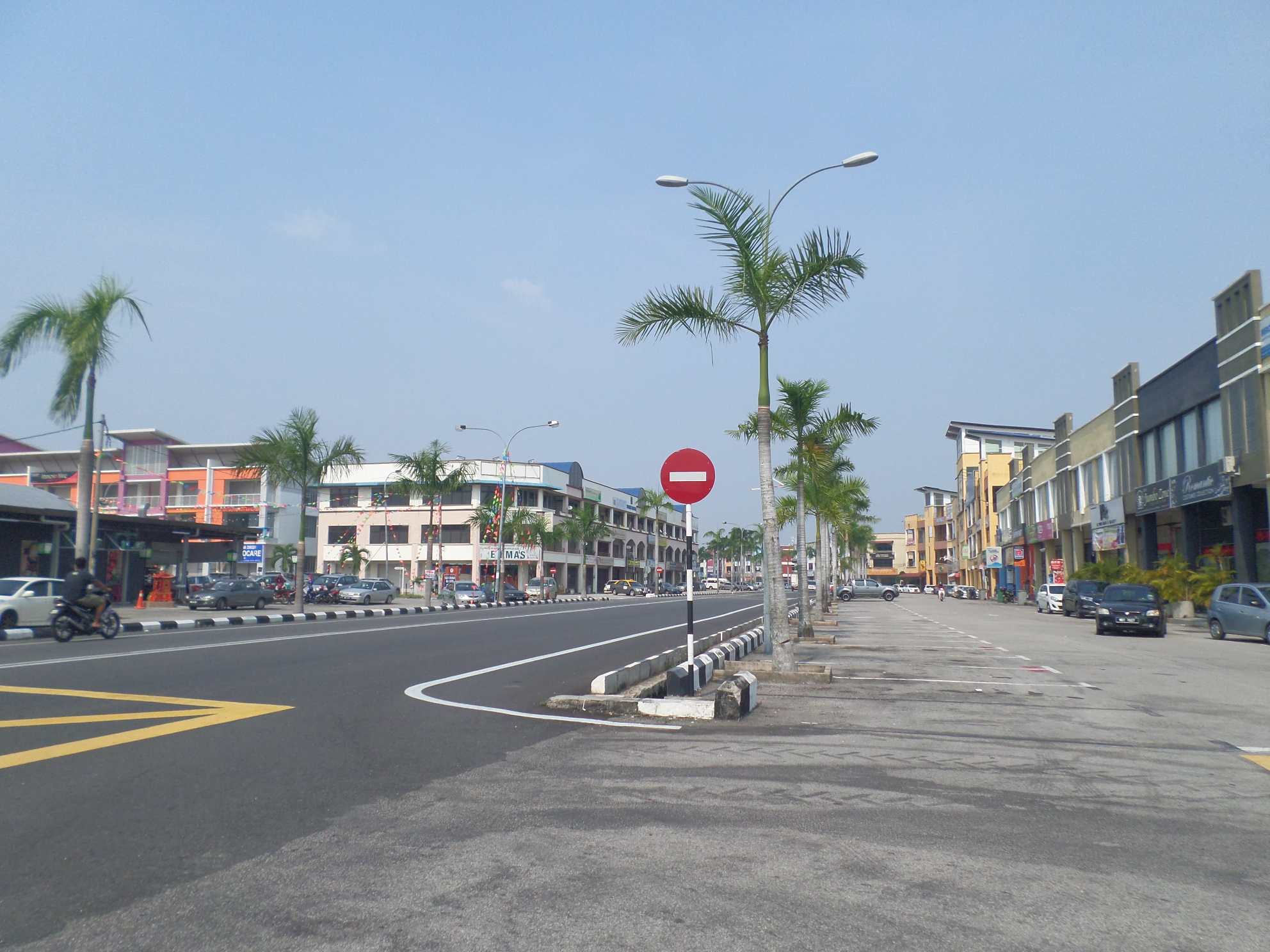 Malim Jaya, Batu Berendam, Malacca, MalaysiaBahasa Melayu: Malim Jaya, Batu Berendam, Melaka, Malaysia